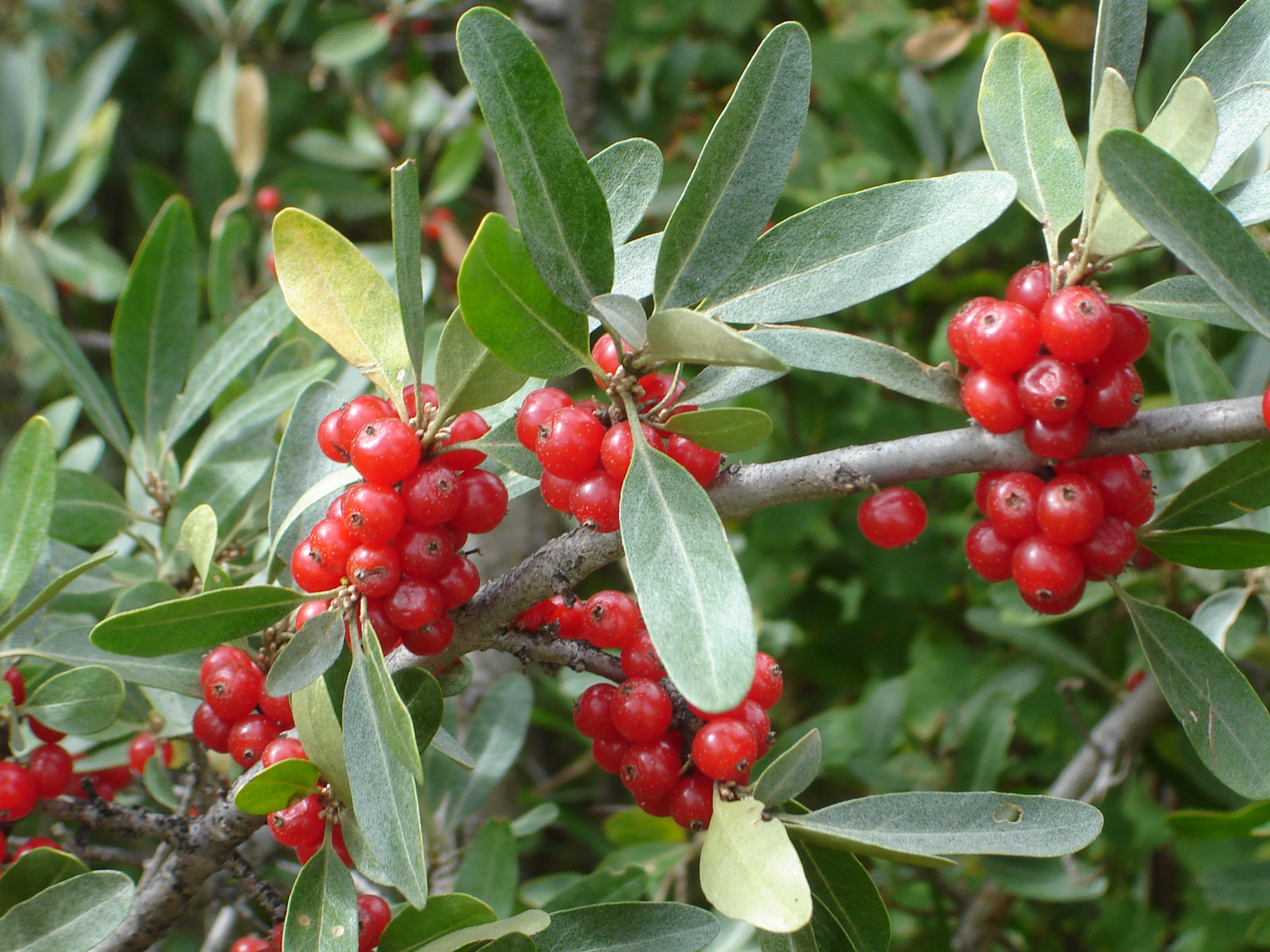 Julia Adamson, photographer in the Saskatoon area. If you plan on using this illustration in wikipedia or outside of wikipedia, an email would be greatly appreciated.